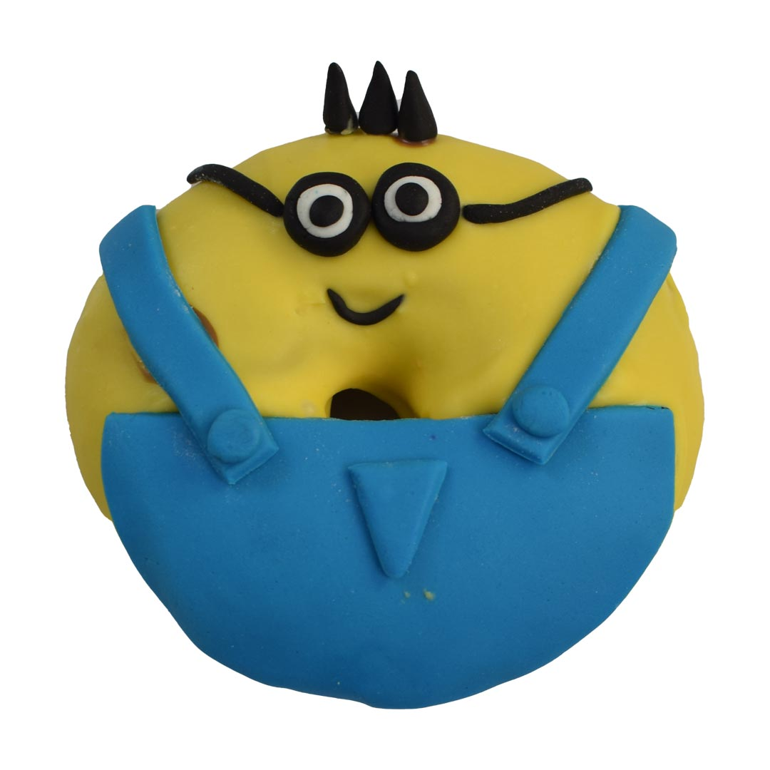 donuts